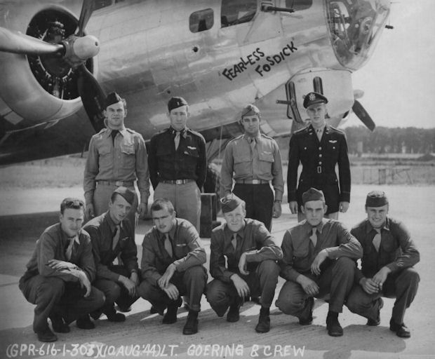 358th Bomber Squadron B-17 Bomber "Fearless Fosdick" Crew of Capt. Werner G. Goering, nephew of Reichsmarshal Goering. The plane in this photo was shot down 5 days later, August 15, 1944, but with a different crew, see here WERNER G. GOERING CREW - 358th BS B-17G #43-37838 Fearless Fosdick (358BS) VK-A (crew assigned 358BS: 07 Aug 1944 - photo: 10 Aug 1944) (Back L-R) 1Lt William D. Sachau (B), 1Lt Jack P. Rencher (CP), 2Lt Rex H. Markt (N), Capt Werner G. Goering (P) (Front L-R) S/Sgt Paul A. Bishop (WG), T/Sgt Chester "Chad" Brodzinski (R), T/Sgt William J. LaPerch, (R), T/Sgt Orall R. "Gus" Gustafson (E), S/Sgt Clarence W. Houseman (BT) S/Sgt Weldon T. "Tex" Mahan (TG)